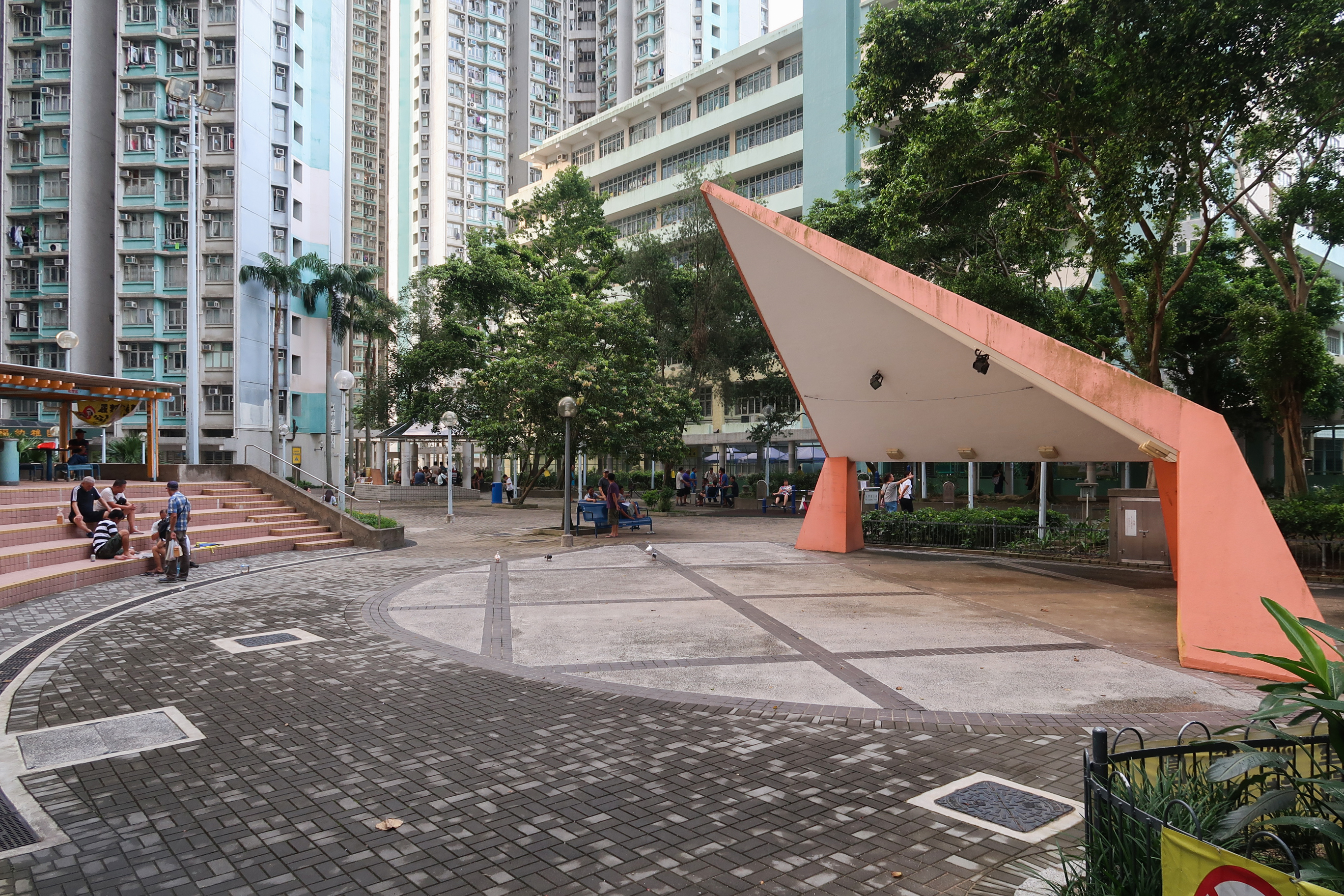 Ka Fuk Estate Amphitheatre